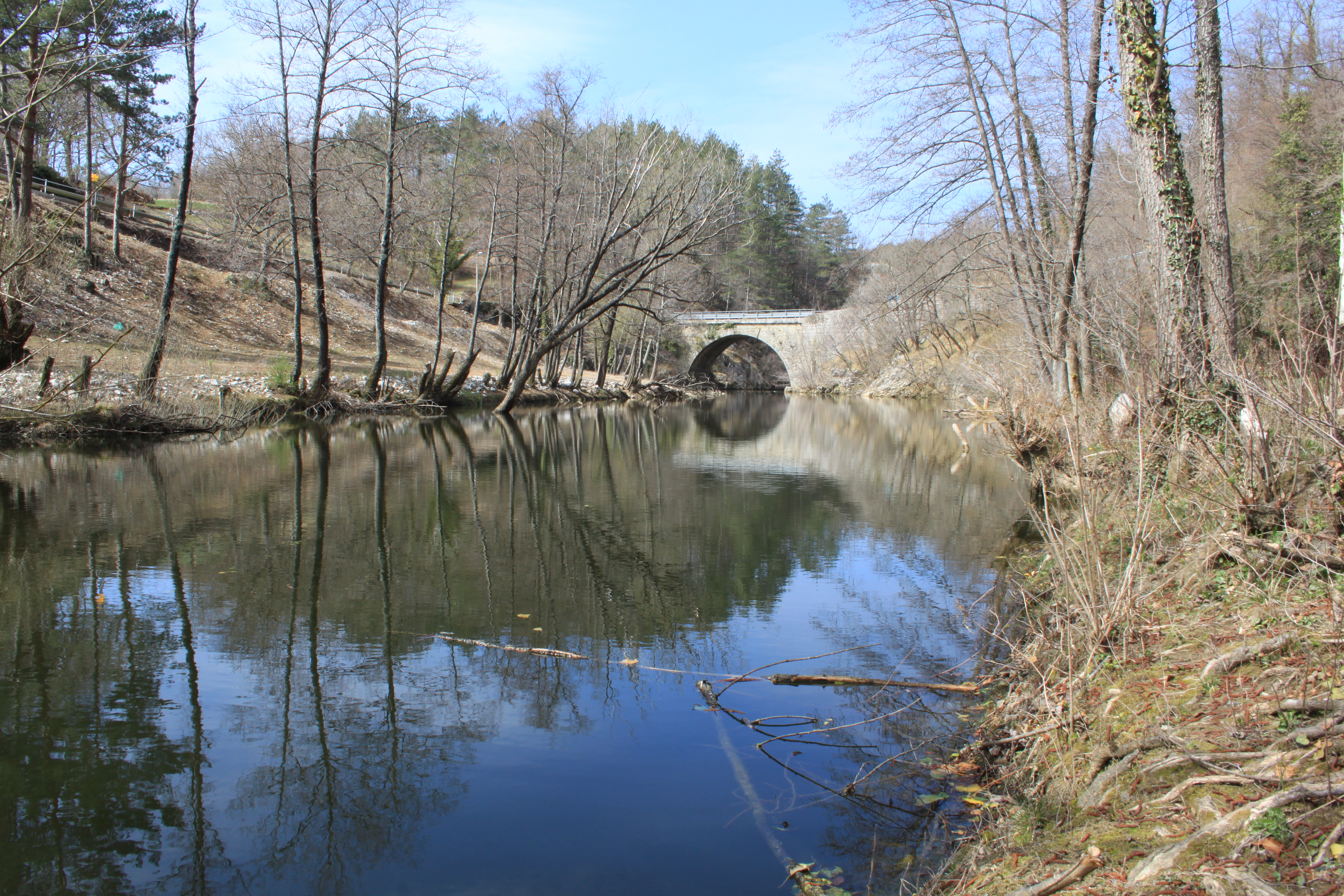 Reka river with Škoflje bridge, near Škocjan caves, Slovenia.